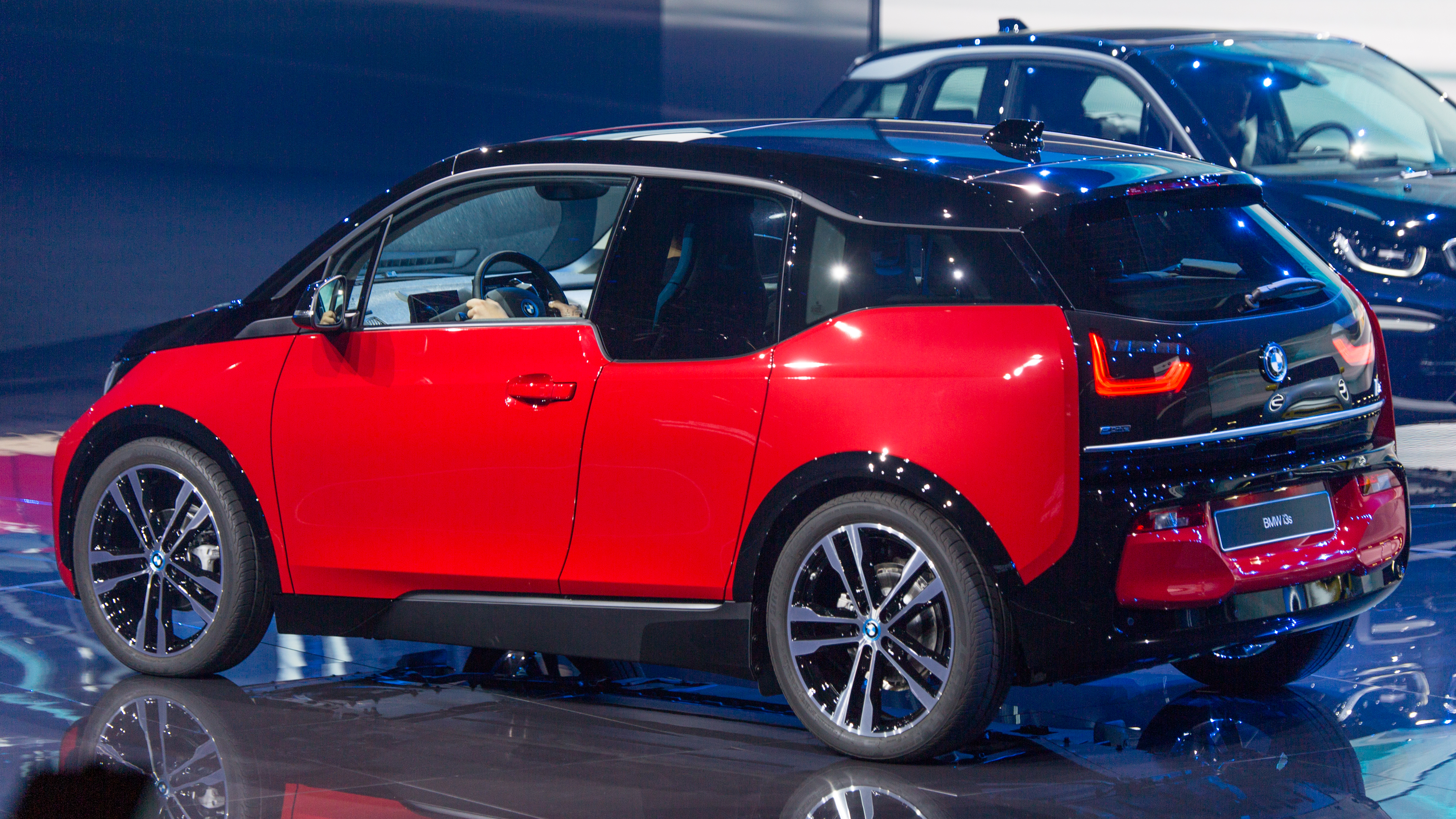 BMW i3s at IAA 2017